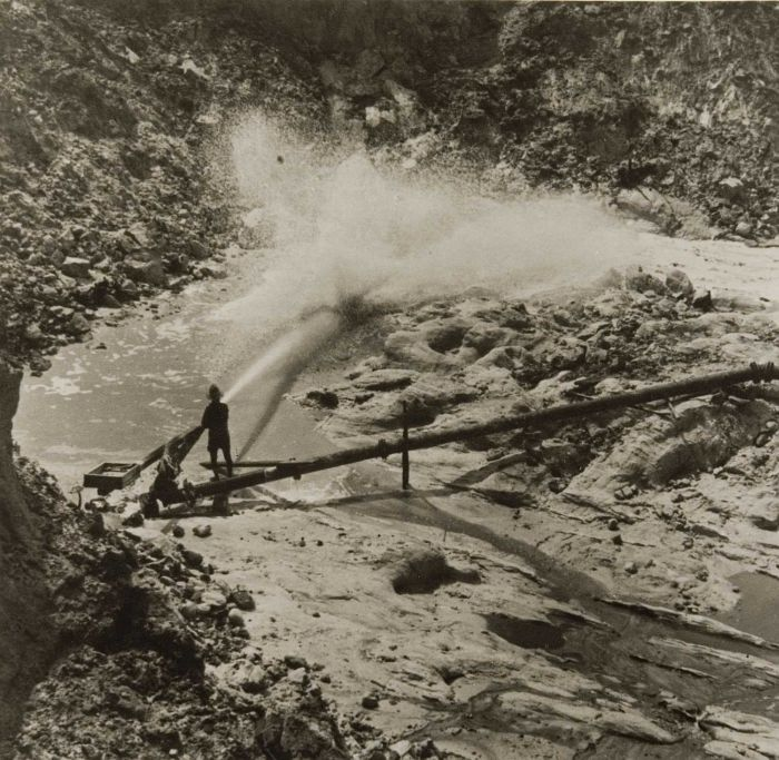 Hydraulic tin mining